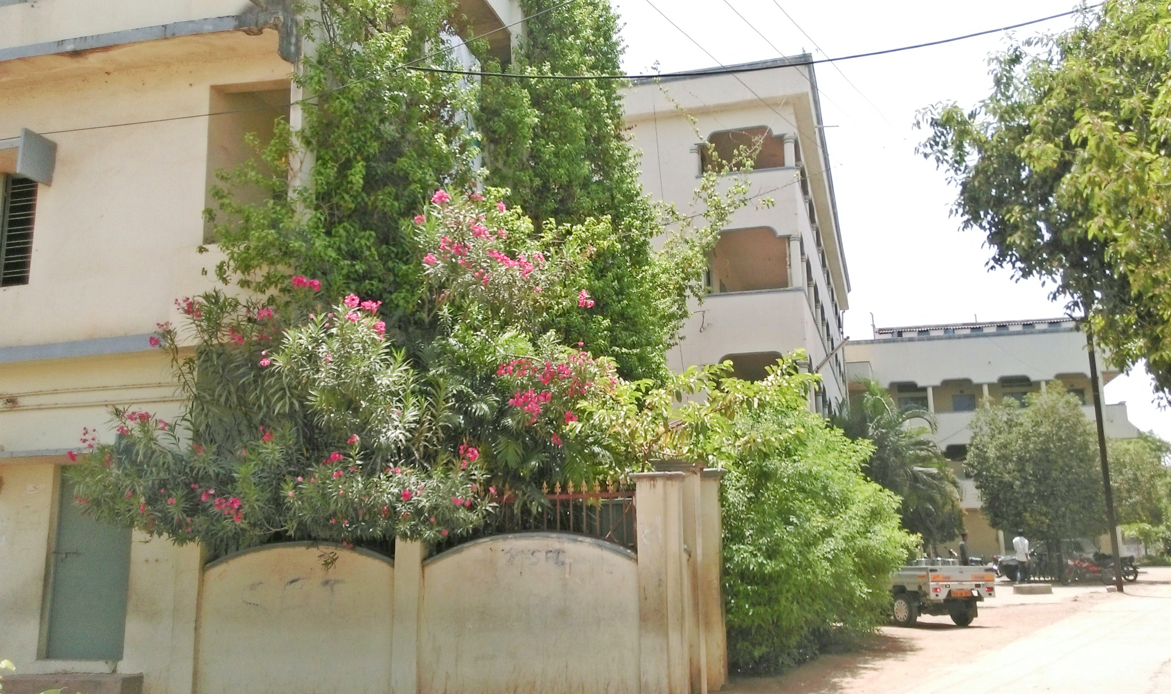 Kakatiya Junior College for Boys (Kakatiya Institutions) in Nizamabad city of Telangana state,India. Other information no